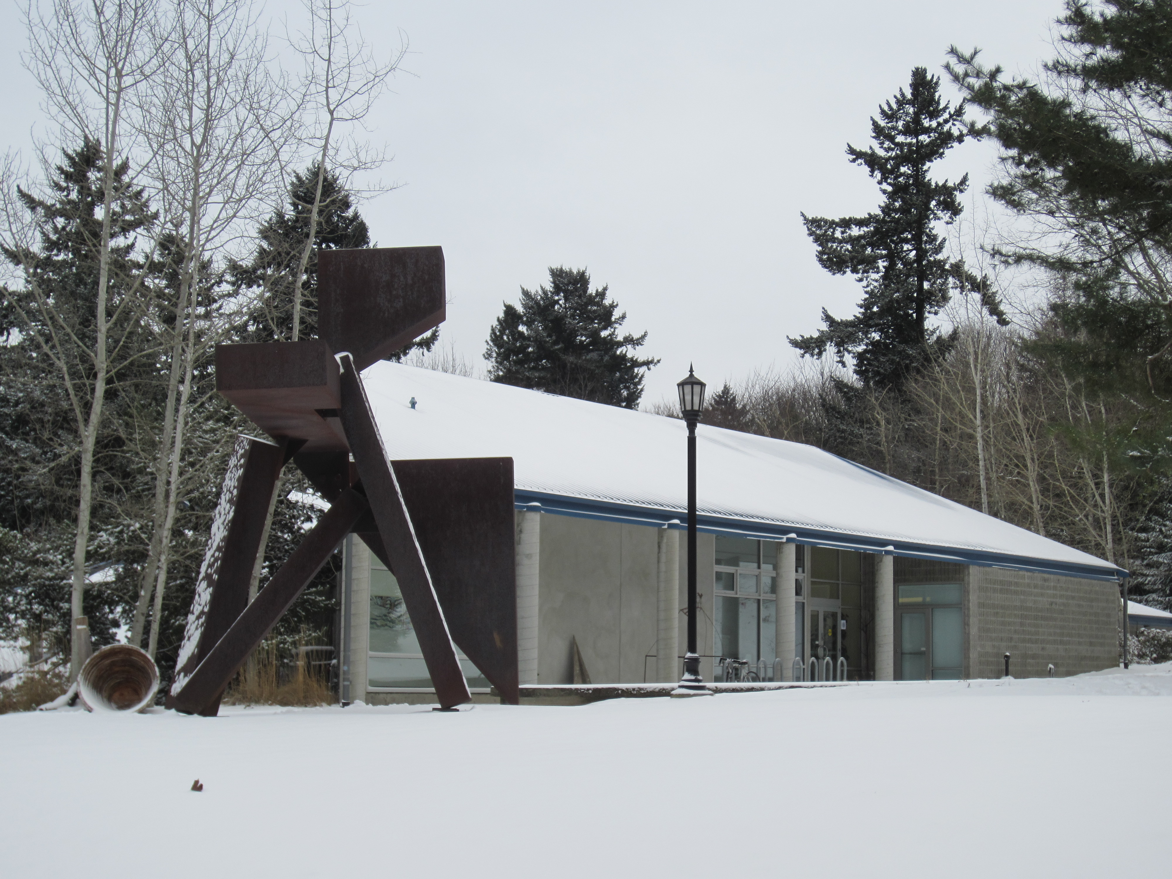 Snow at Reed College, Southeast Portland, Oregon (2014)